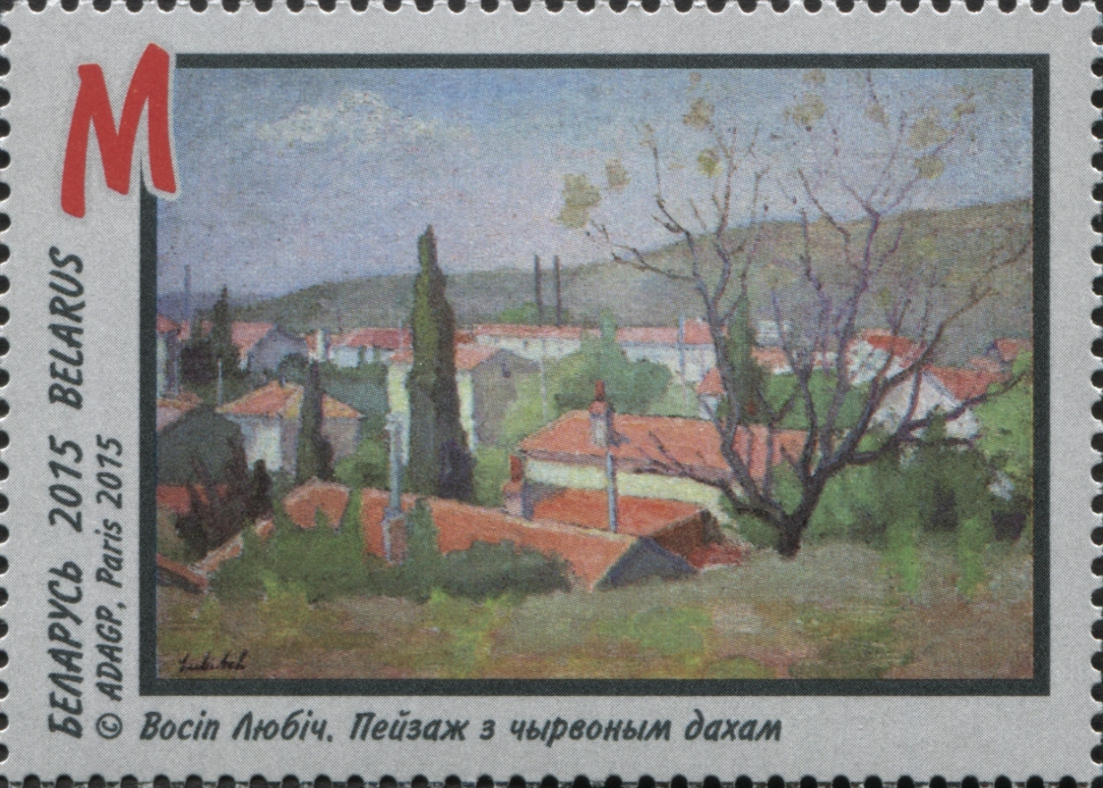 Stamps of Belarus, 2015